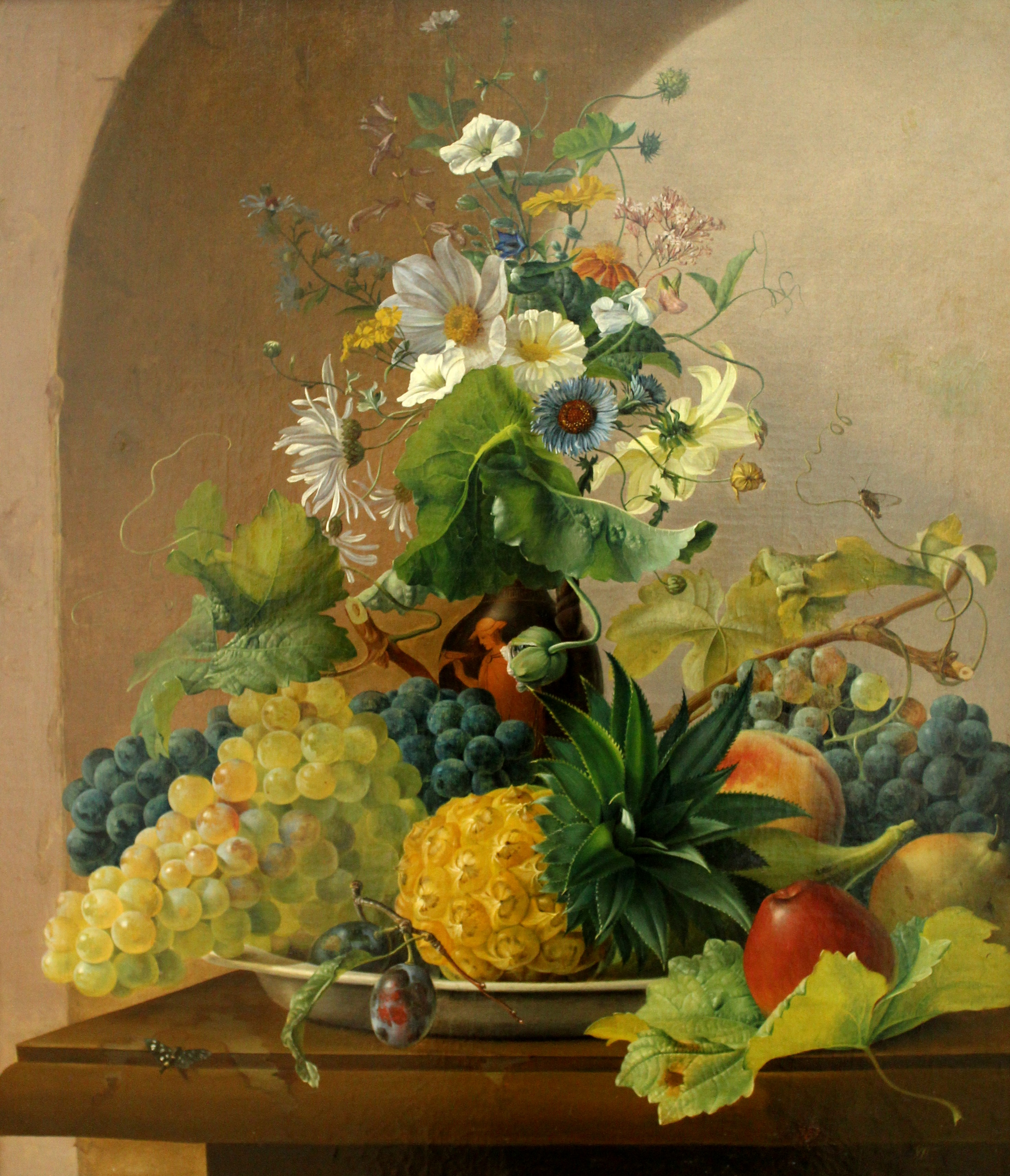 Leipzig, Museum of Fine Arts, Gottlob Michael Wentzel, still life